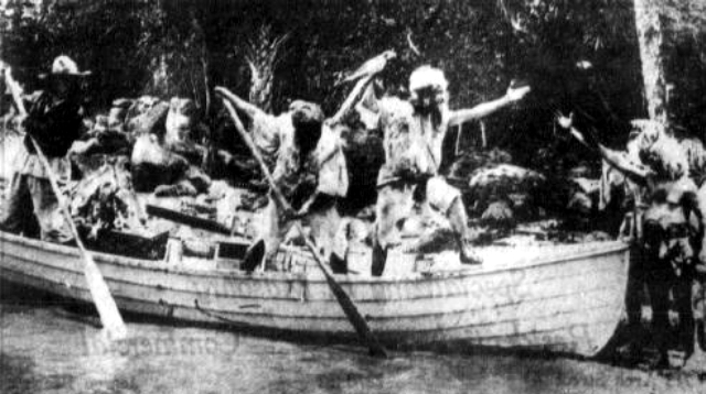 Robert Paton Gibbs in the American silent film Robinson Crusoe (1916).